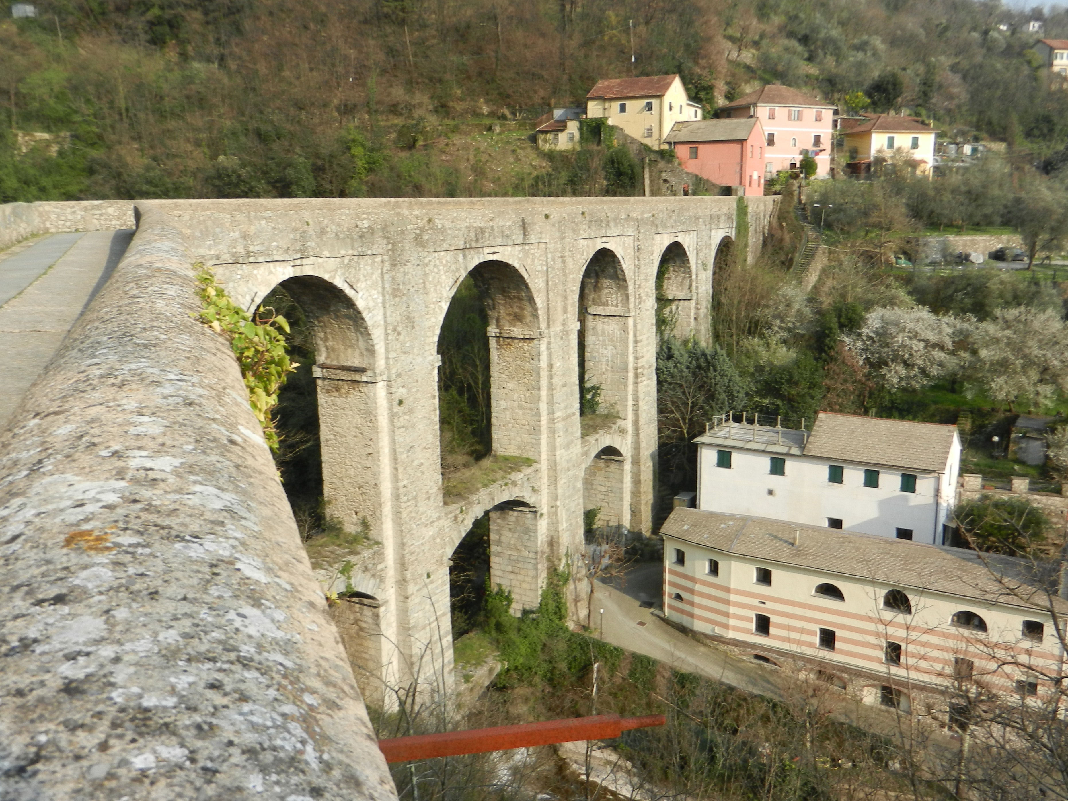 Genoa, Italy, quarter of Struppa, canal bridge of hystorical acqueduct of Genoa